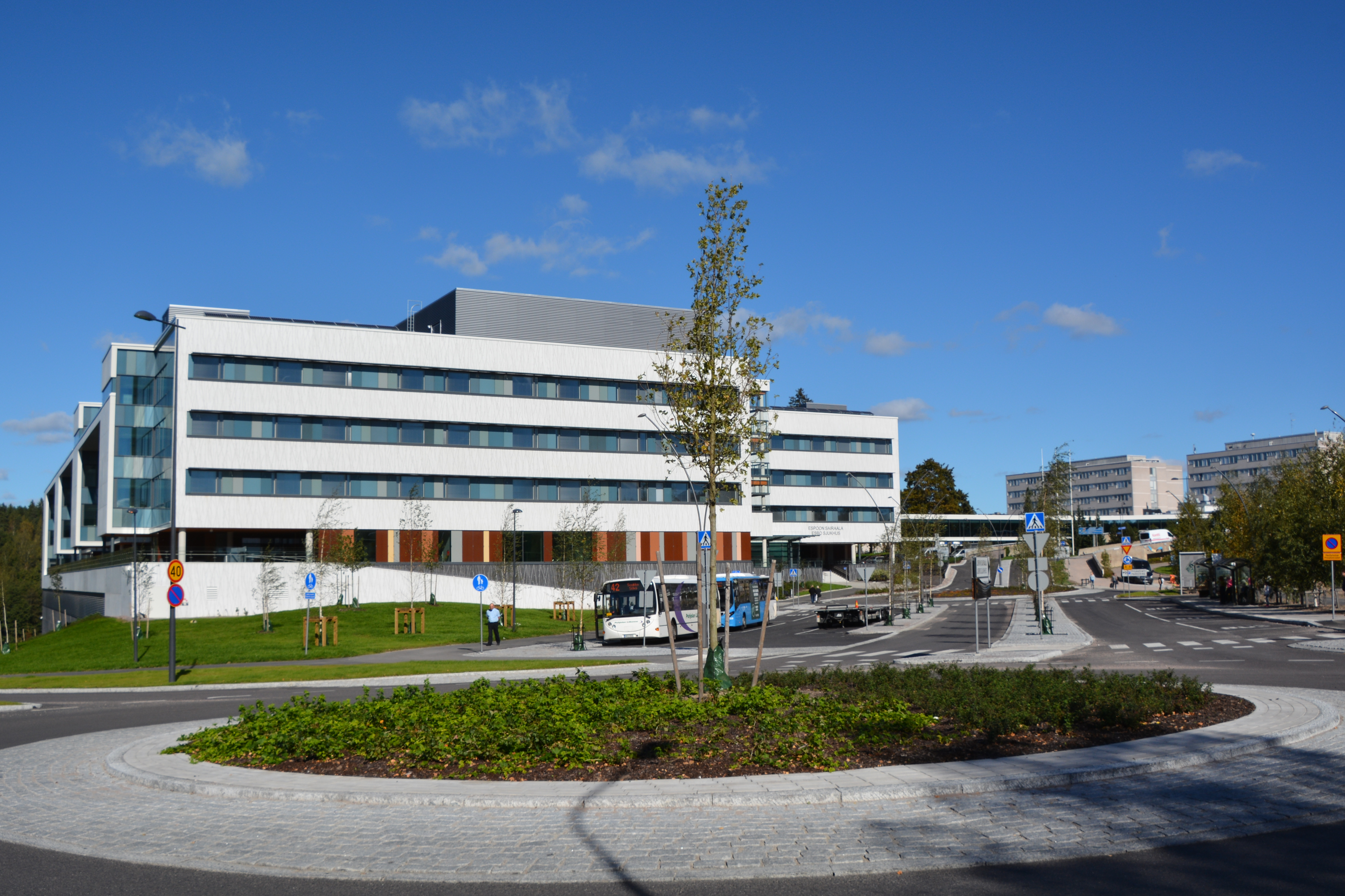 Espoo hospital, Espoo, Finland, seen from southeast. Far right: part of Jorvi hospital.